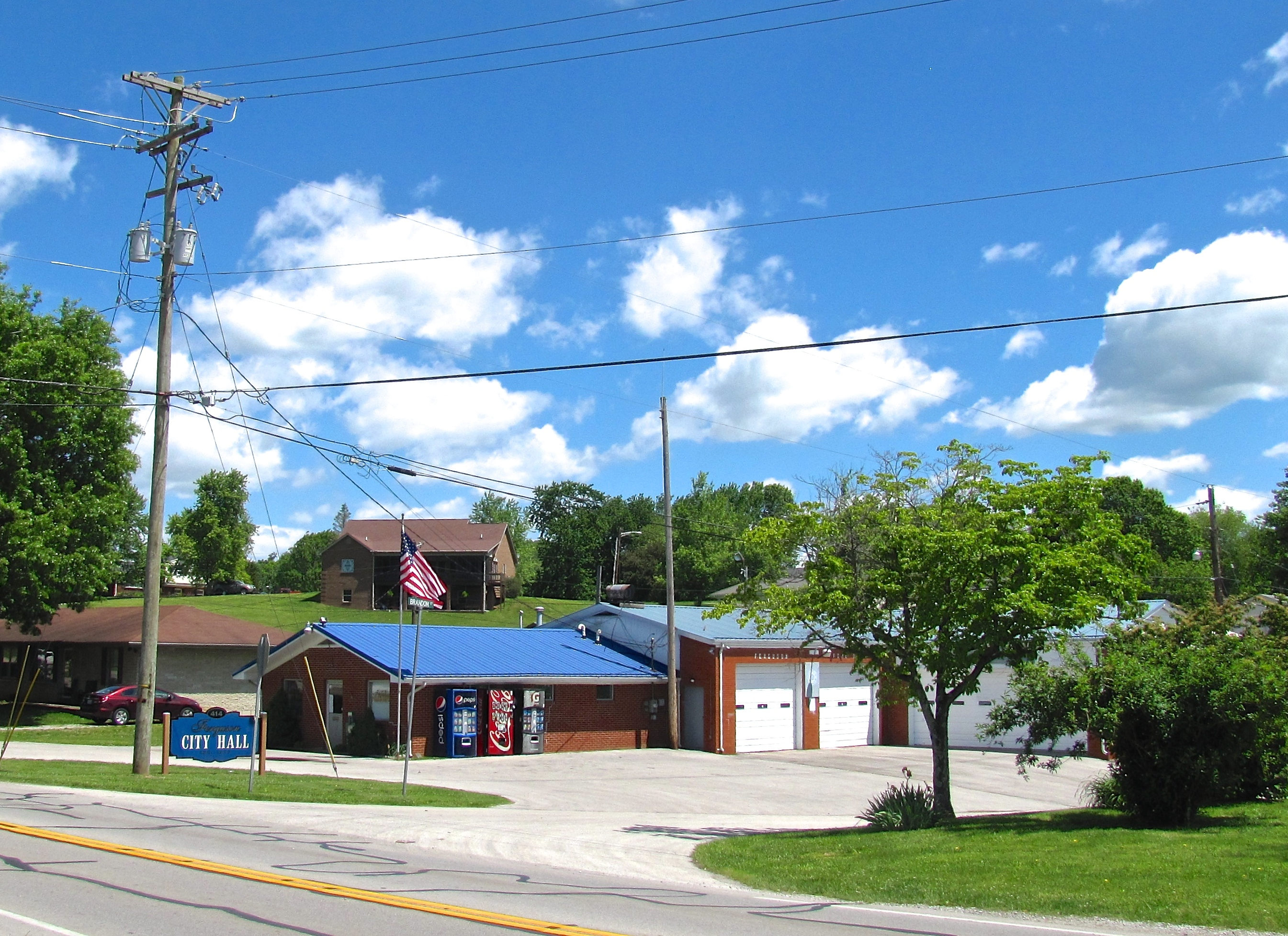 City Hall in Ferguson, Kentucky, United States. Kentucky Route 1247 (Murphy Avenue) is on the lower left.